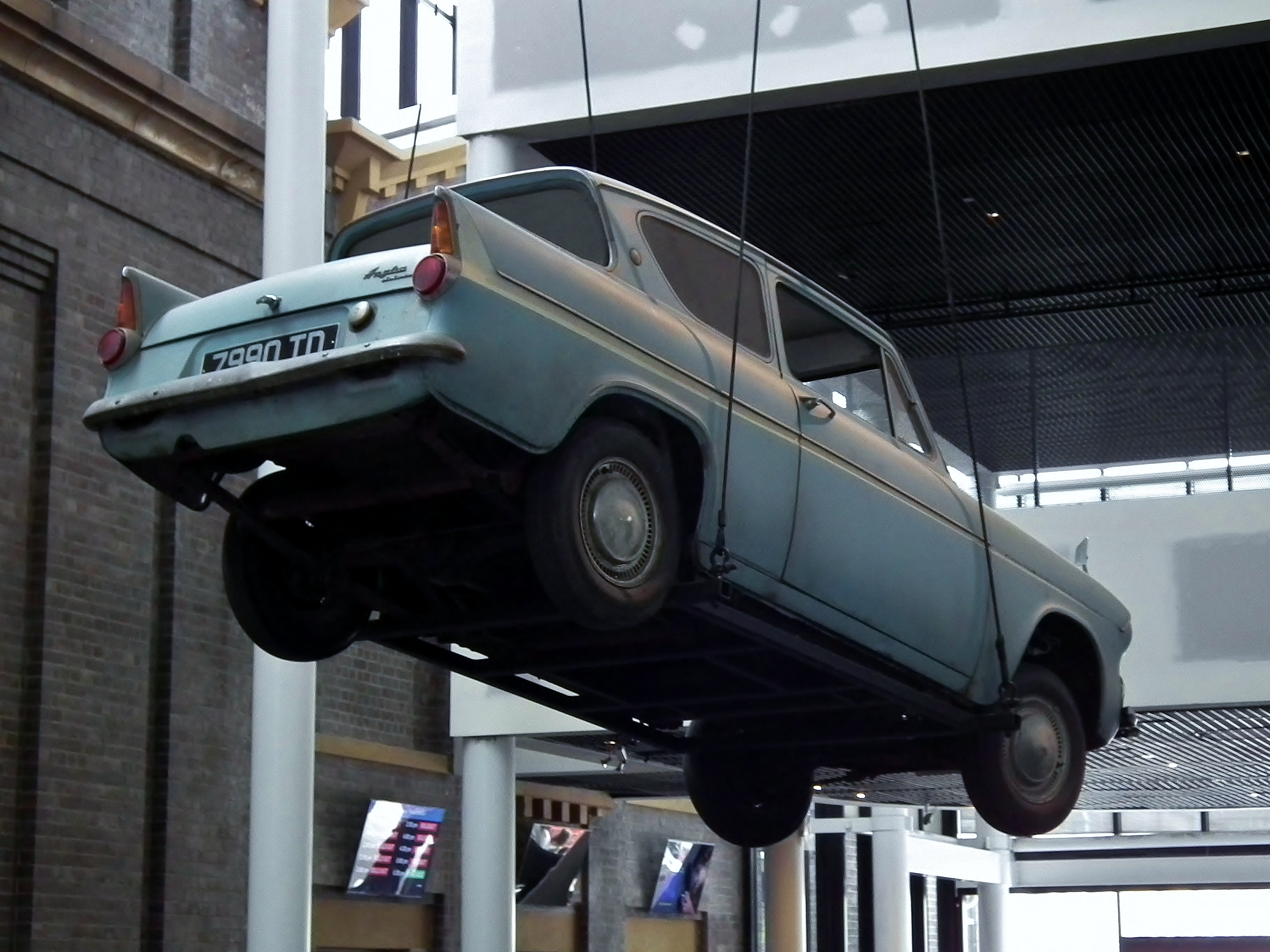 Ford Anglia 105E Deluxe sedan - Harry Potter Flying Car. This is one of the original cars used in the making of the movie "Harry Potter and the Chamber of Secrets". On display at Sydney's Powerhouse Museum as part of the Harry Potter Exhibition of movie props and costumes. Another of the original prop cars was on display at the National Motor Museum Beaulieu in the UK.